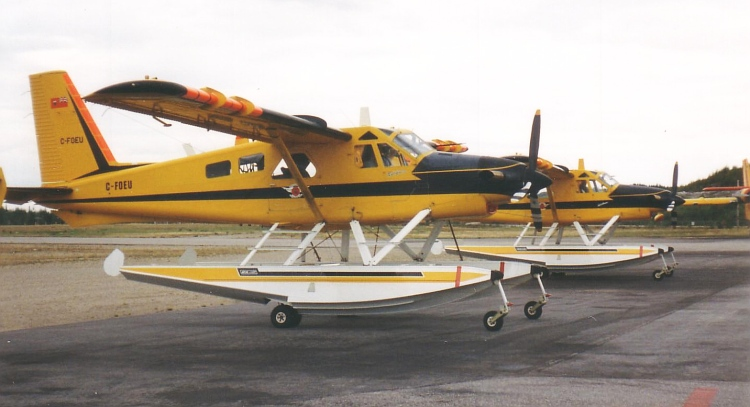 I took this photo of two Ontario Ministry of Natural resources deHavilland DHC 2 Mk 3 Turbo Beavers (C-FOEU) on amphib floats in Dryden ON in 1995